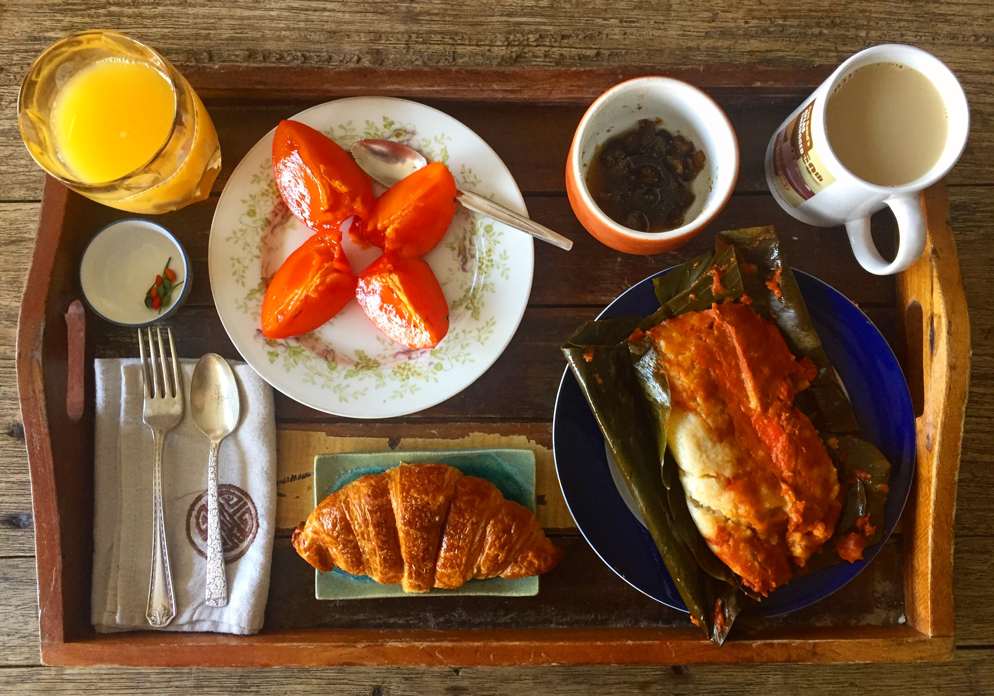 Tamale, persimon, croissant, breakfast